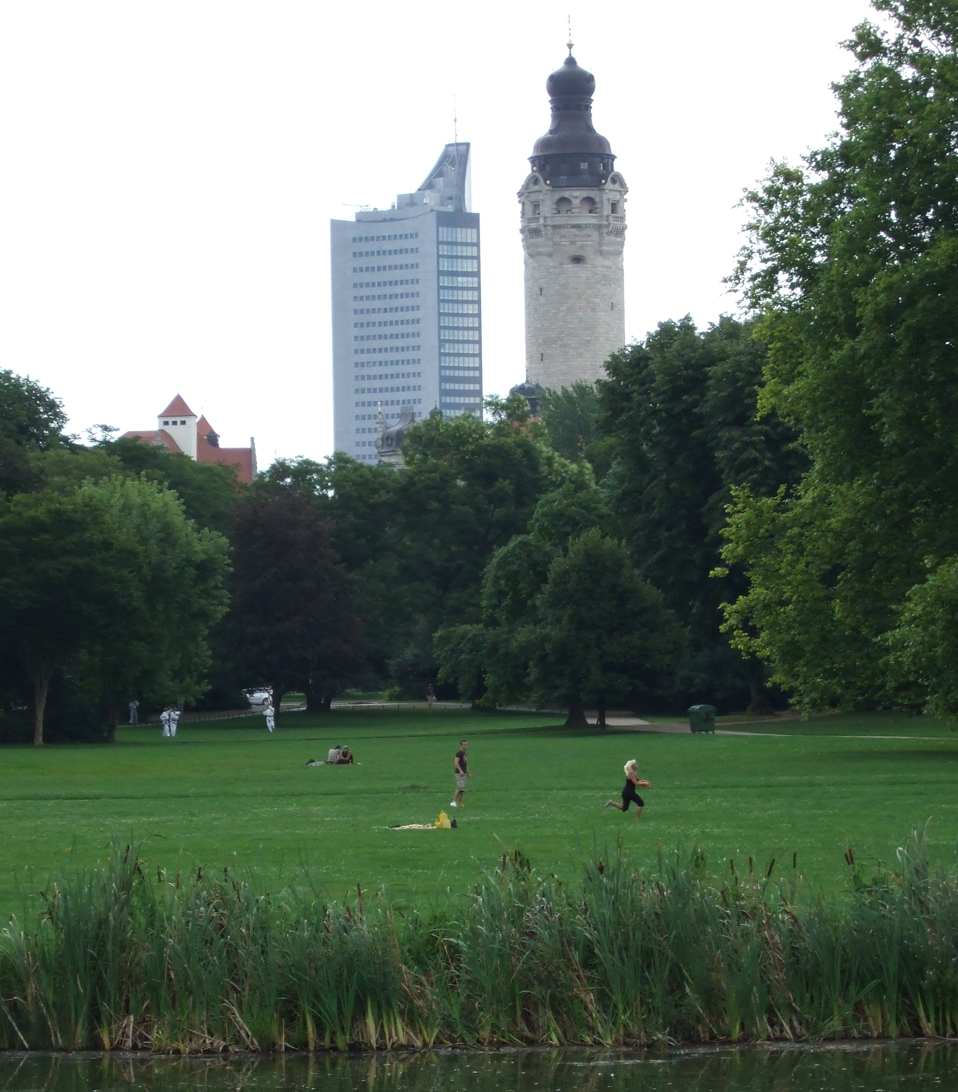 Johanna Park / Leipzig